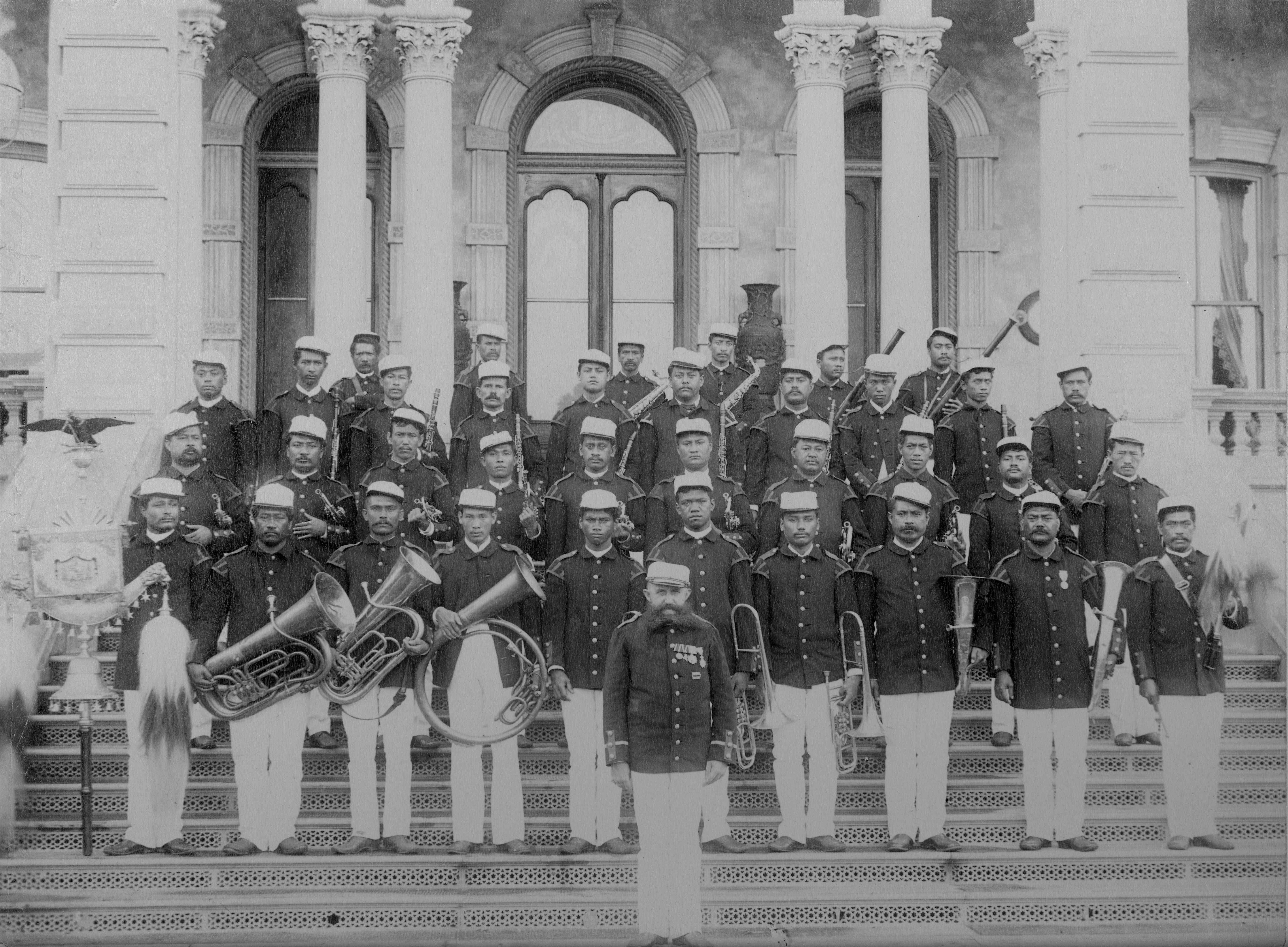 Photograph of the Royal Hawaiian Band in 1889.